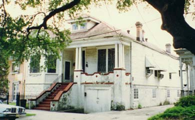 New Orleans: House near Esplanade Avenue & Broad, former home of jazz musician Paul Mares; the New Orleans Rhythm Kings rehersed here. Photo by Infrogmation, early 1990s